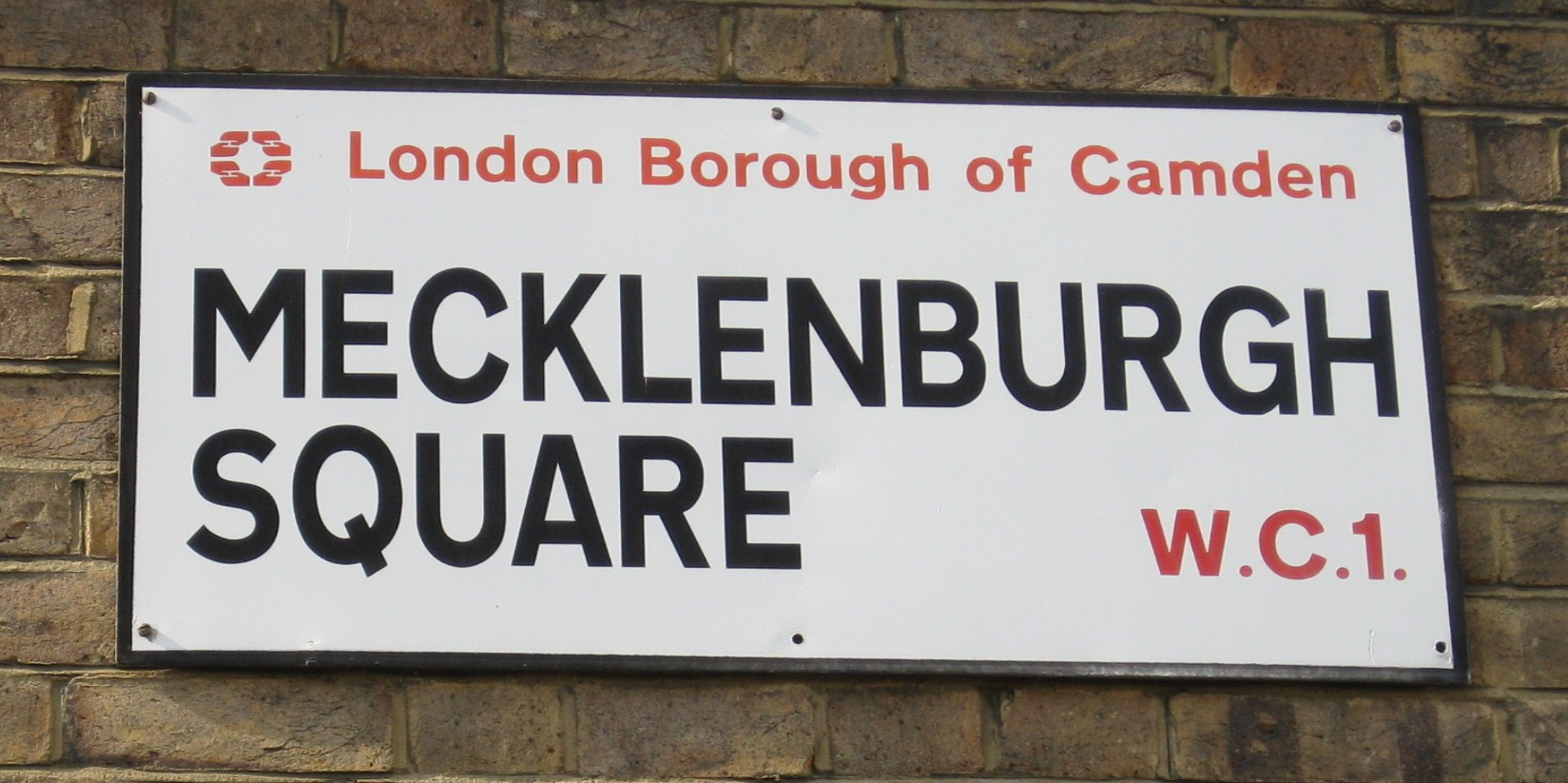 Mecklenburgh Square, street sign, (Holborn) London WC1